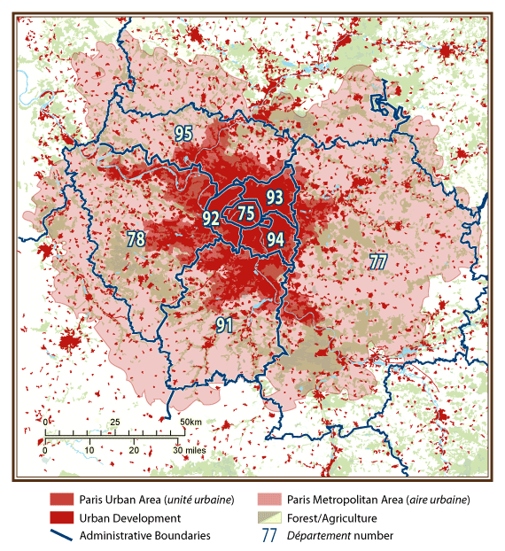 Statistical demographics plan of Paris and the Île-de-France région J.M. Schomburg - My own work - Created the 08/03/2006 Attribution: "Plan: 2005 J.M. Schomburg"